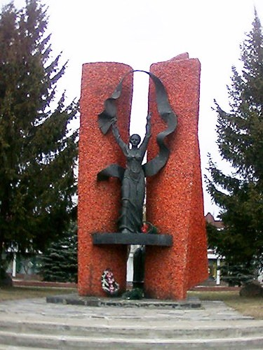 Memorial glory